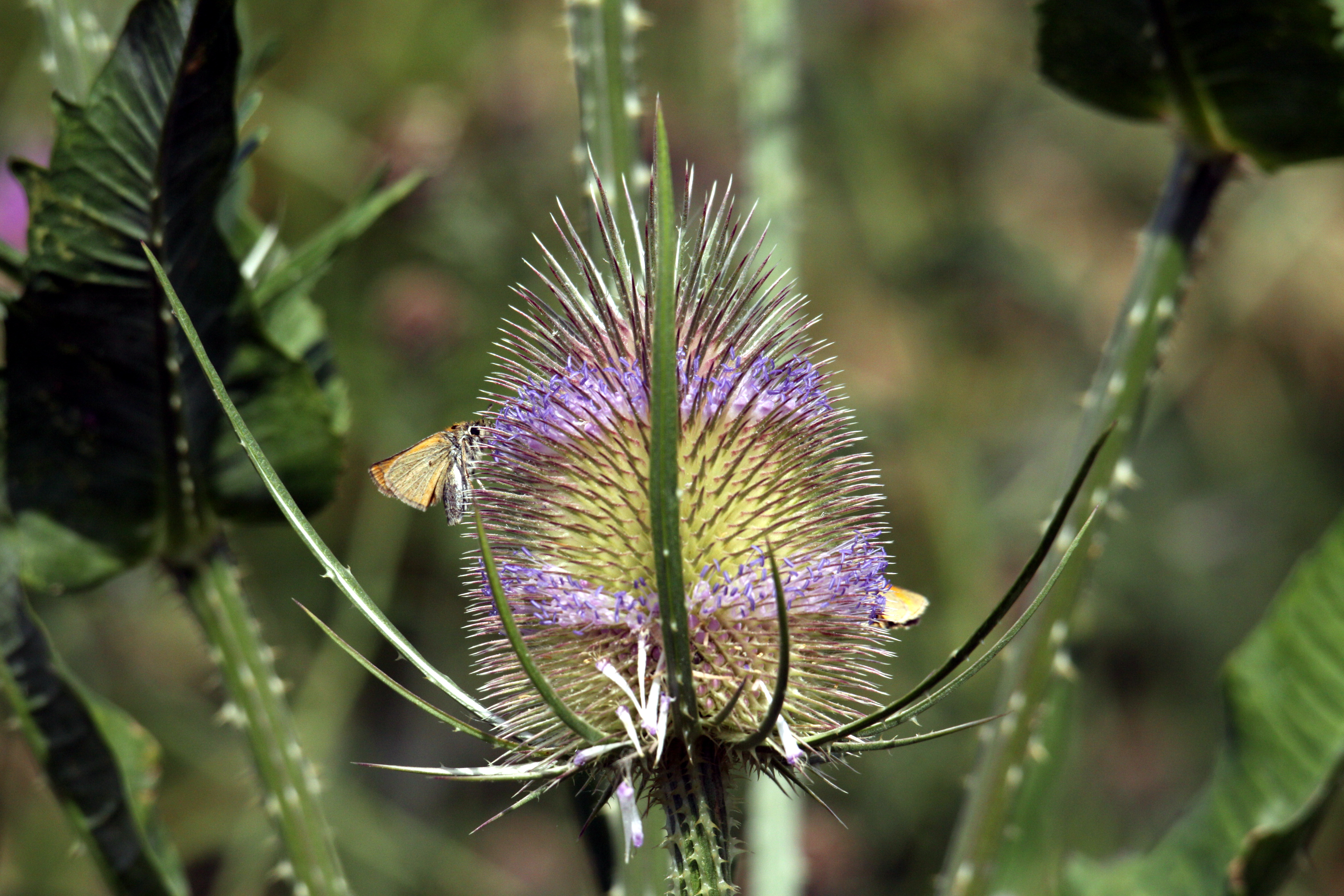 Dipsacus sativus in Wormwood Scrubs Park in London, England, Great Britain.